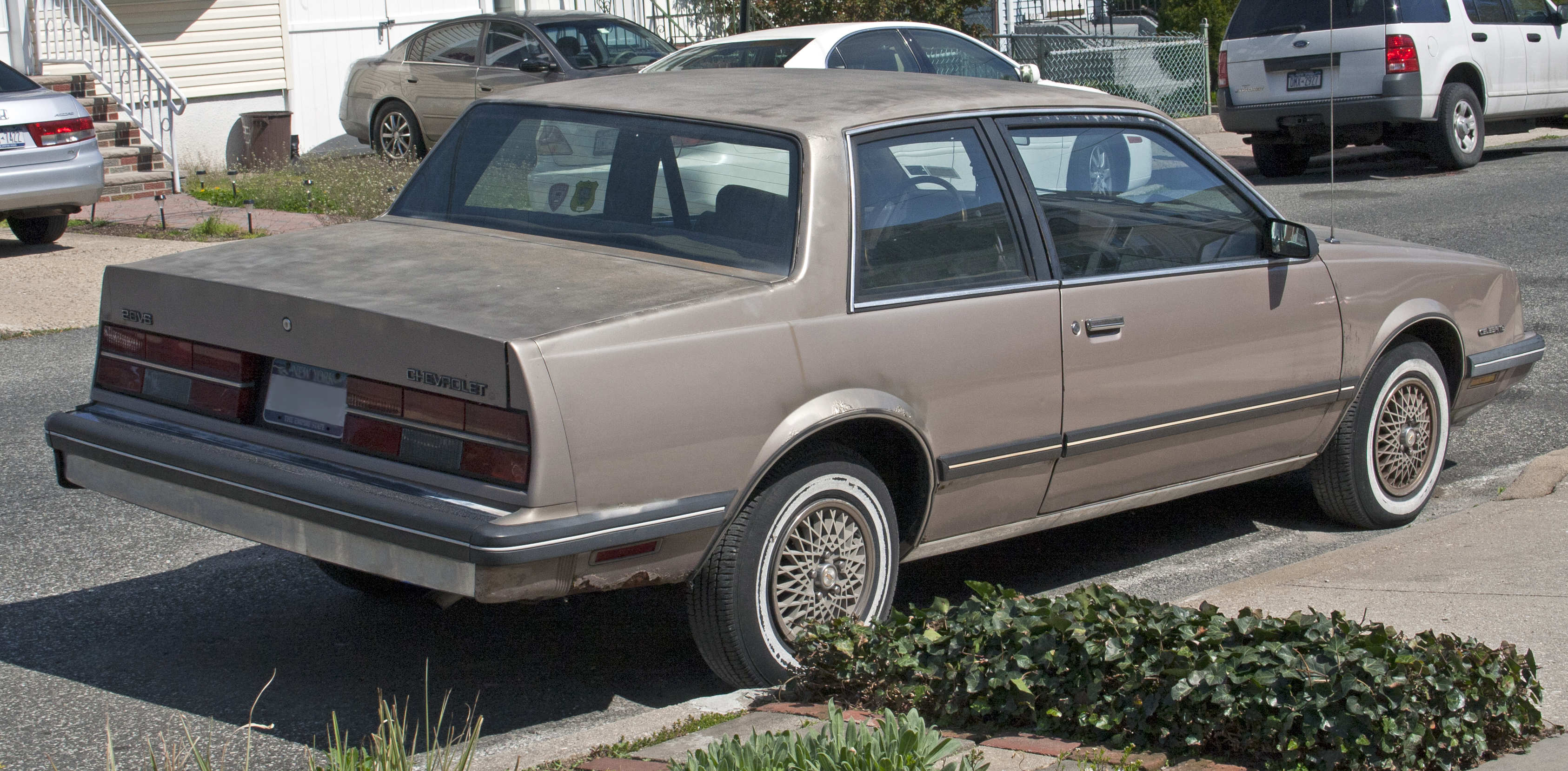 1984 Chevrolet Celebrity Coupé 2.8 V6